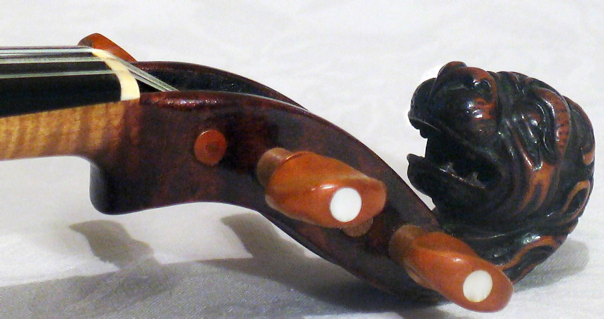 Violin J.Stainer 165? Lionheadscroll